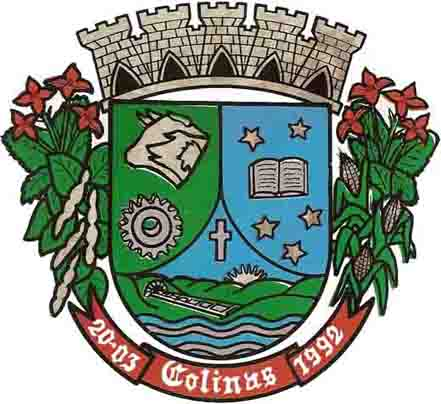 Coat of city of Colians, Rio Grande do Sul, Brazil